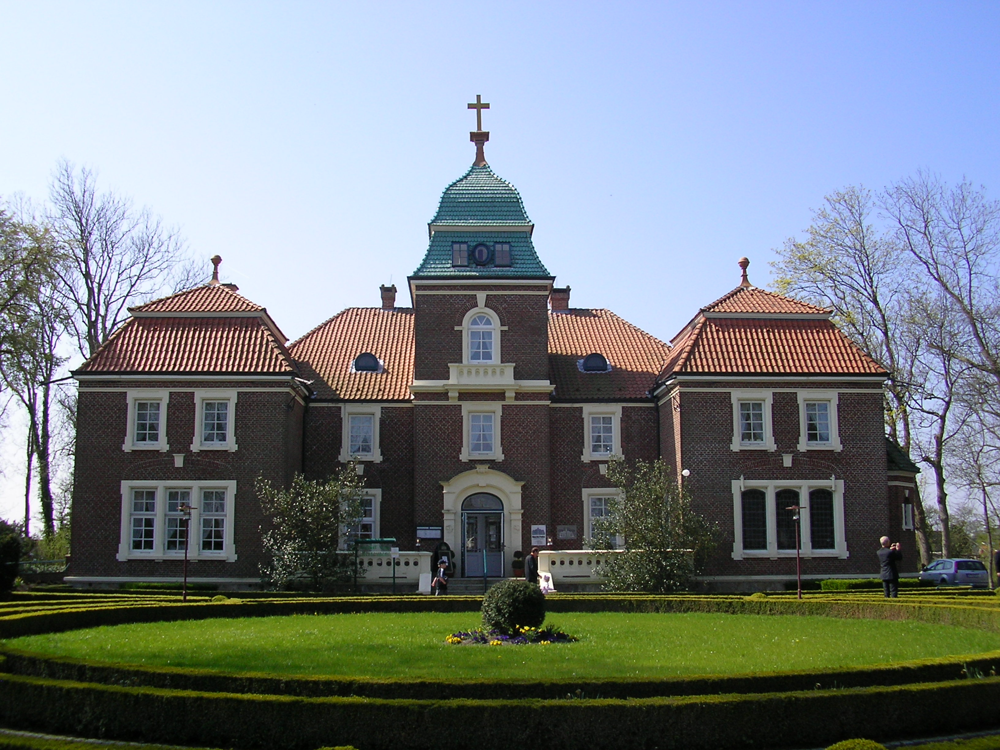 Sielhof in Neuharlingersiel